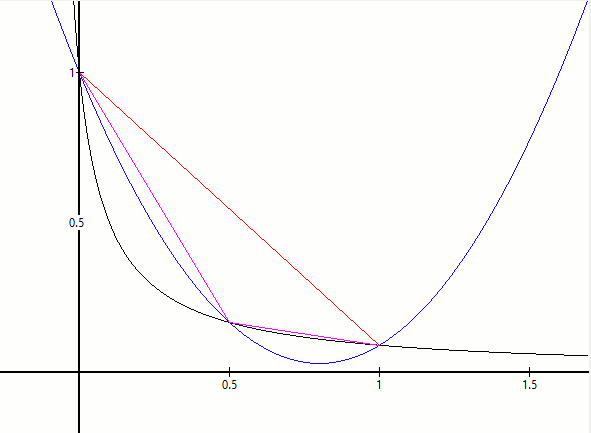 Visualization of element number 1 of table of Romberg algorithm. This element is derived from two trapezoidal integration methods - for 1 and 2 intervals.